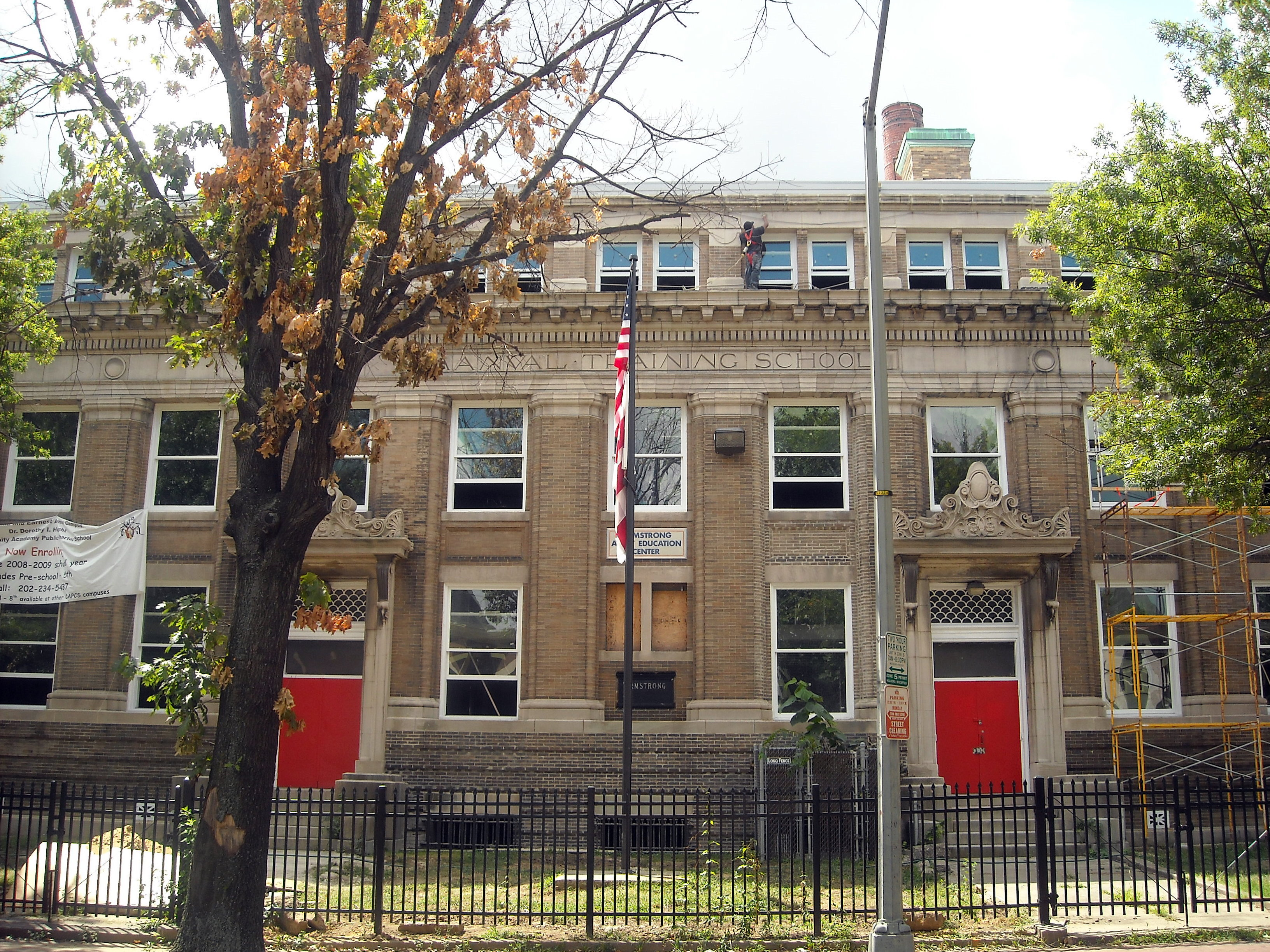 Armstrong Manual Training School (also known as the Samuel Chapman Armstrong Technical High School) located at 1st & P Streets, NW in the Truxton Circle neighborhood of Washington, D.C. Designed by local architect Waddy B. Wood in 1902, the Renaissance Revival building was one of two segregated manual training schools constructed for the city's African-American youth. The school was placed on the National Register of Historic Places in 1996.